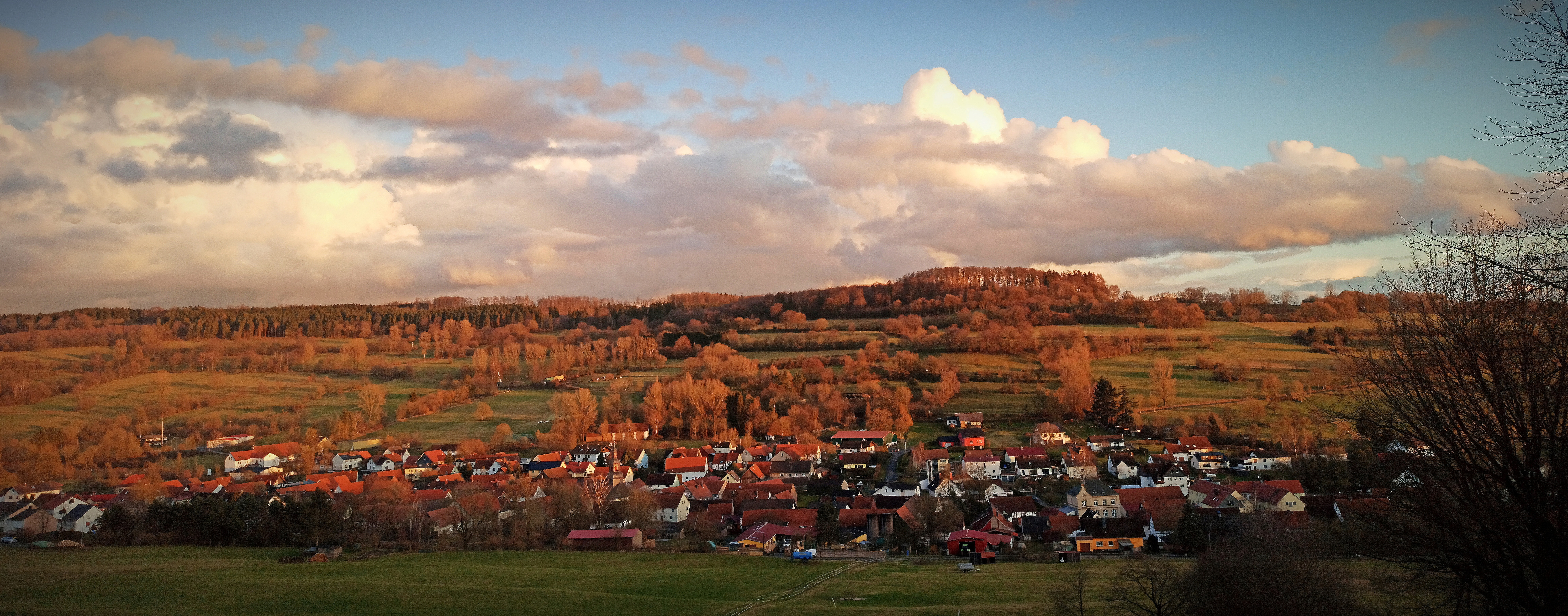 Burkhards from Westside